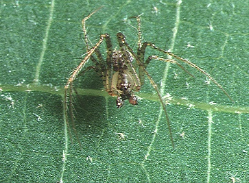 male Mimetus ryukyus from Okinawa.